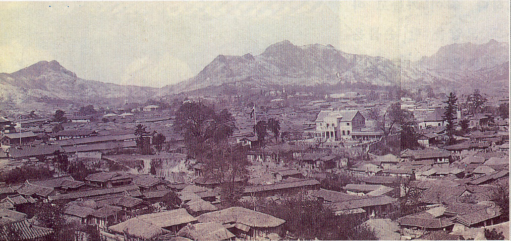 View of Seoul; circa 1900